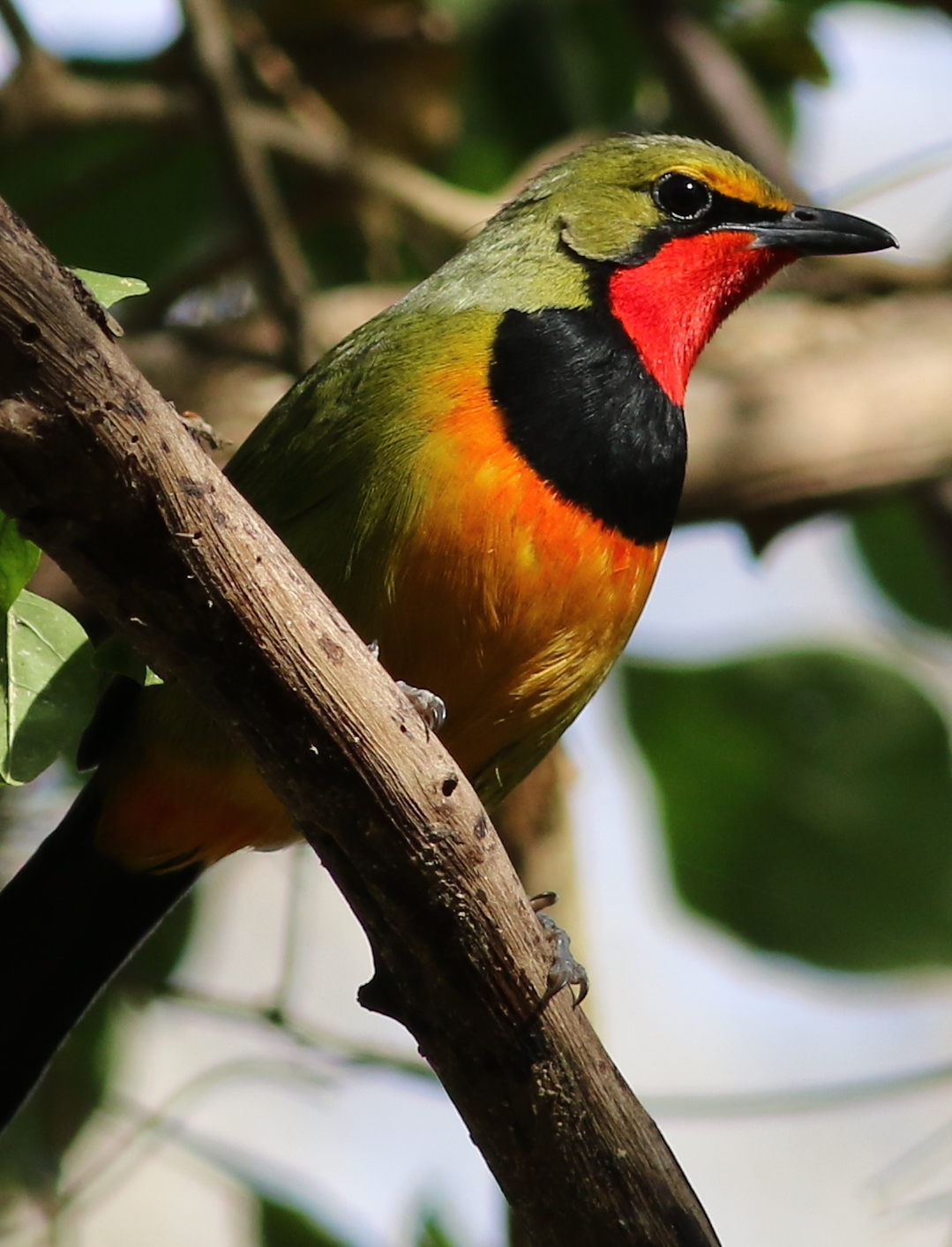 Gorgeous bushshrike, Chlorophoneus viridis, at Ndumo Nature Reserve, KwaZulu-Natal, South Africa